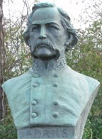 A bust of Confederate Brig. Gen. John Adams by Anton Schaaf (1869-1943). Erected in 1915 on Confederate Avenue, across from Tennessee State Memorial, at Vicksburg National Military Park. Note: Erected by the federal government, the monument commemorates Civil War Brigadier General John Adams. The monument is on the National Park Service List of Classified Structures.